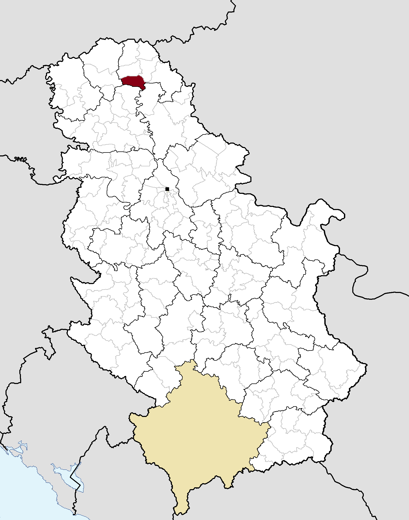 Municipal location in Serbia